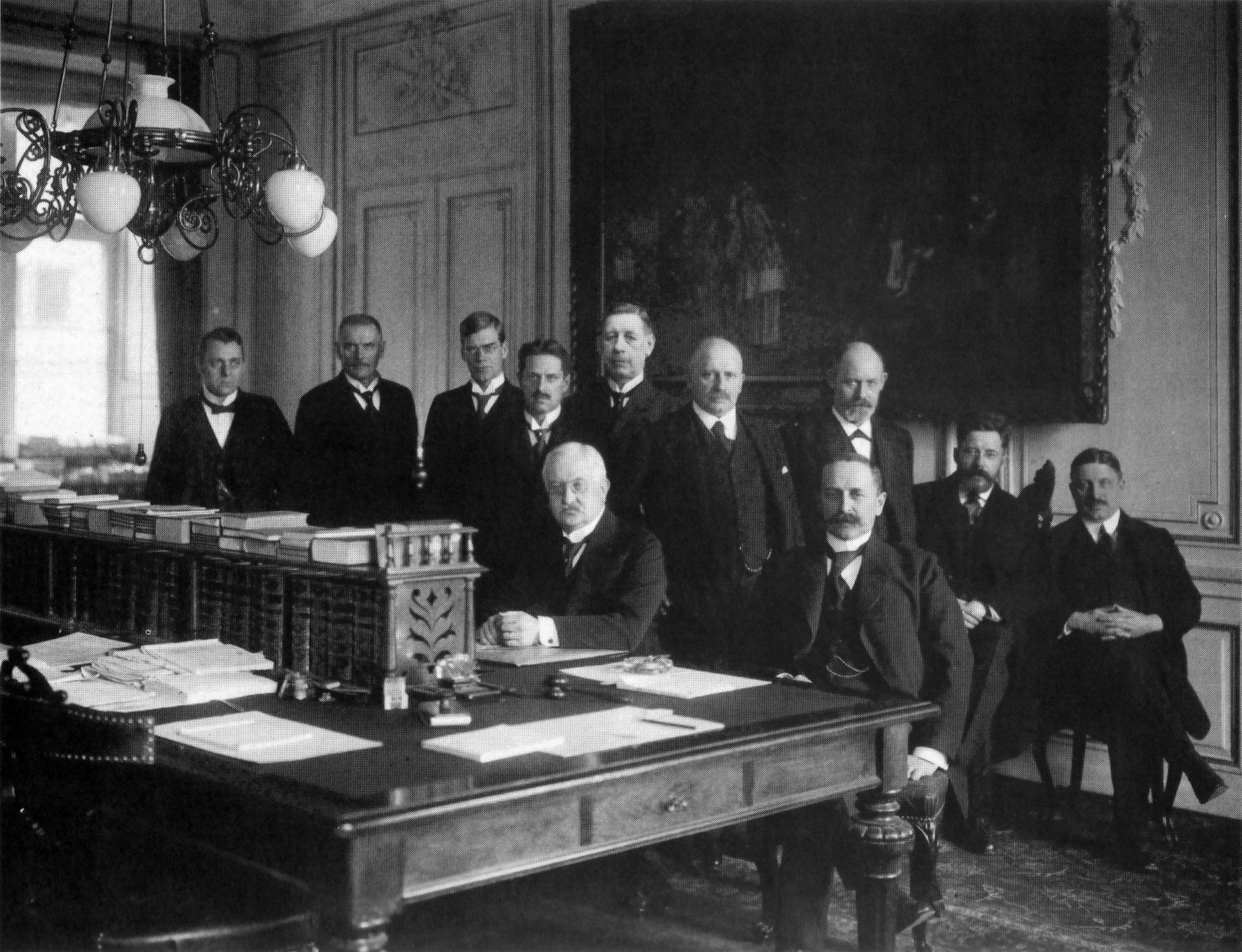 The cabinet of Nils Edén (1917-1920). From left: Minister without Portfolio Bror Petrén, Minister for War Erik Agabus Nilson, Minister without Portfolio Östen Undén, Minister for Sea Defense Erik Palmstierna, Minister for Foreign Affairs Johannes Hellner, Minister for Agriculture Alfred Petersson, Minister for Civil Affairs Axel Schotte, Prime Minister Nils Edén, Minister for Finance Fredrik Thorsson, Minister for Eclesiastic Affairs Värner Rydén, Minister for Justice Eliel Löfgren.